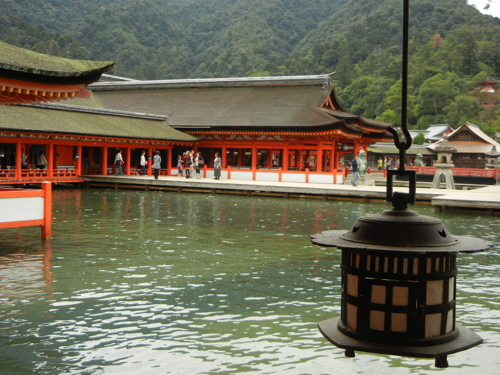 Itsukushima_Shrine_Miyajima. 広島県の宮島にある「厳島神社」, Miyajima.